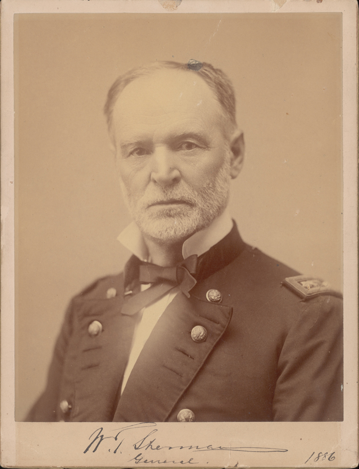 William Tecumseh Sherman in 1886, Kansas Historical Society